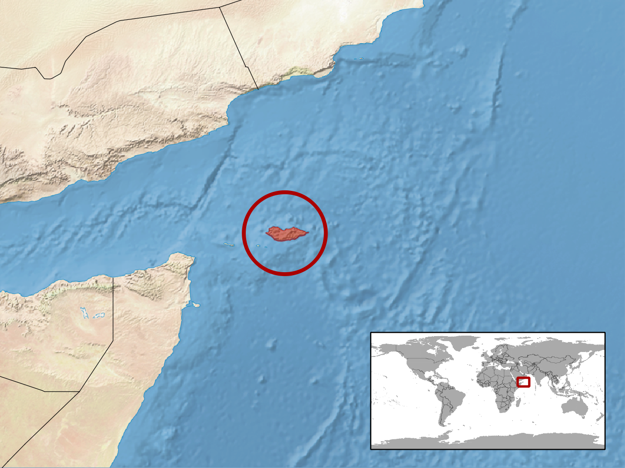 geographic distribution of Hemidactylus inintellectus (Native: Yemen (Socotra))